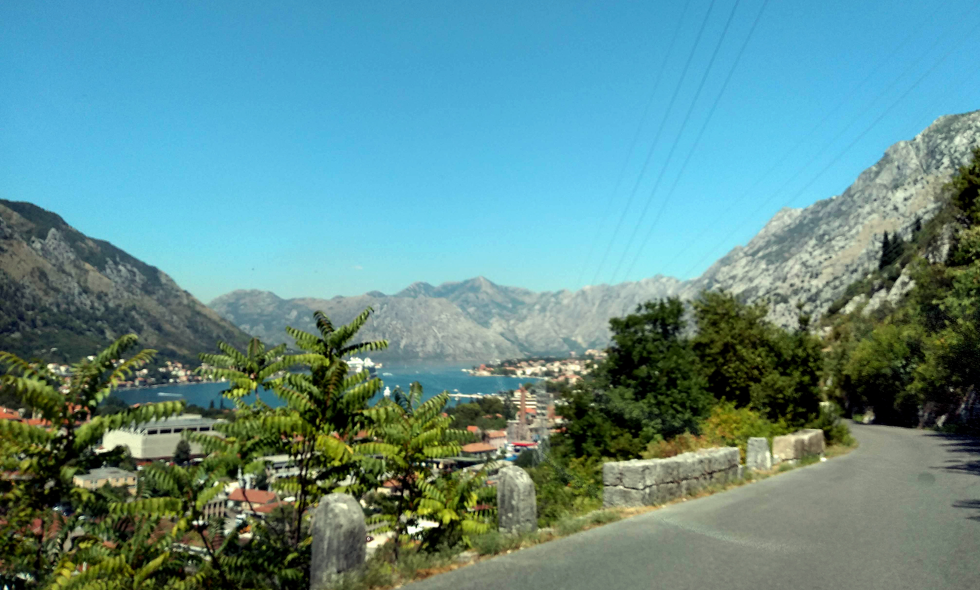 R-1 regional road (Montenegro) - entrance to the Škaljari district in Kotor